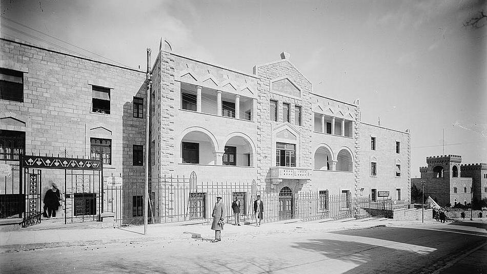 Ethiopian Consulate Original caption: Newer Jerusalem and suburbs. The Ethiopian Queen's bld'g [i.e., building]. Street of the Prophets